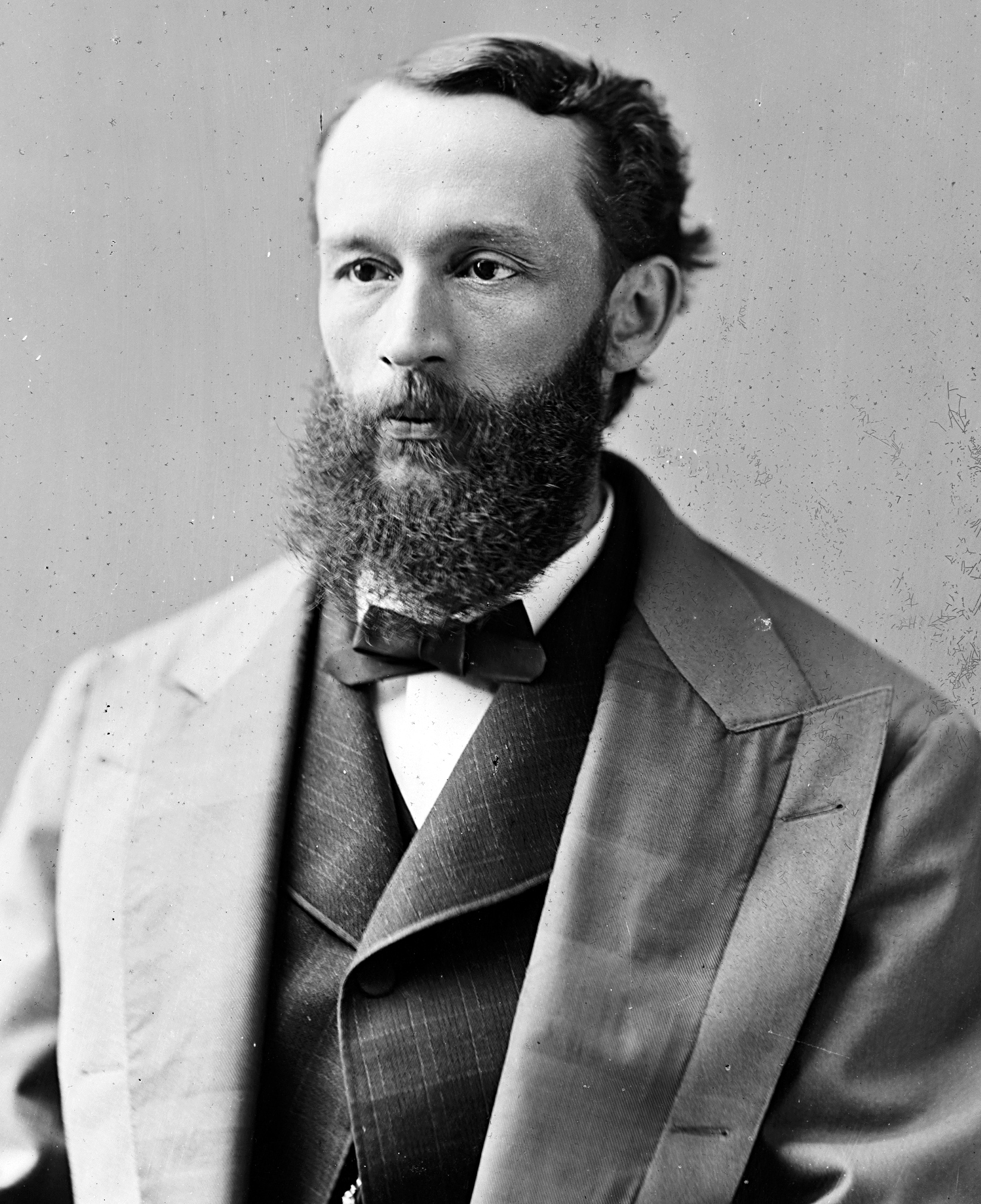 William Henry Harrison Stowell, US Representative from Virginia